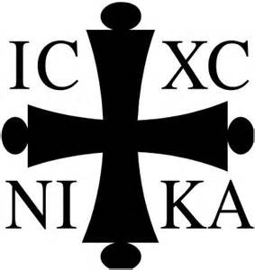 Christian Symbols International Orthodox Church Of america